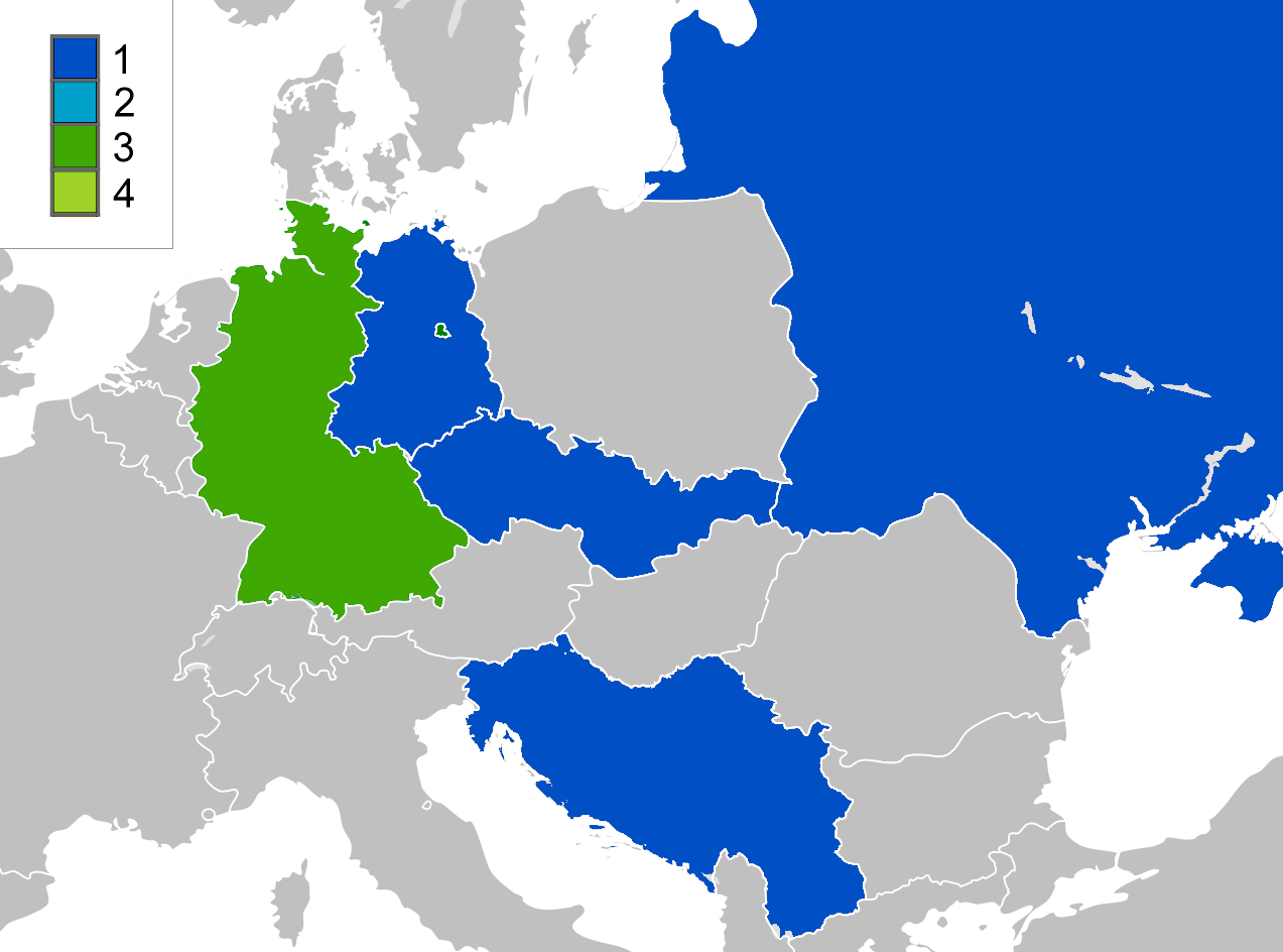 Map showing best result for for states that no longer exist in the Women Handball World Championship